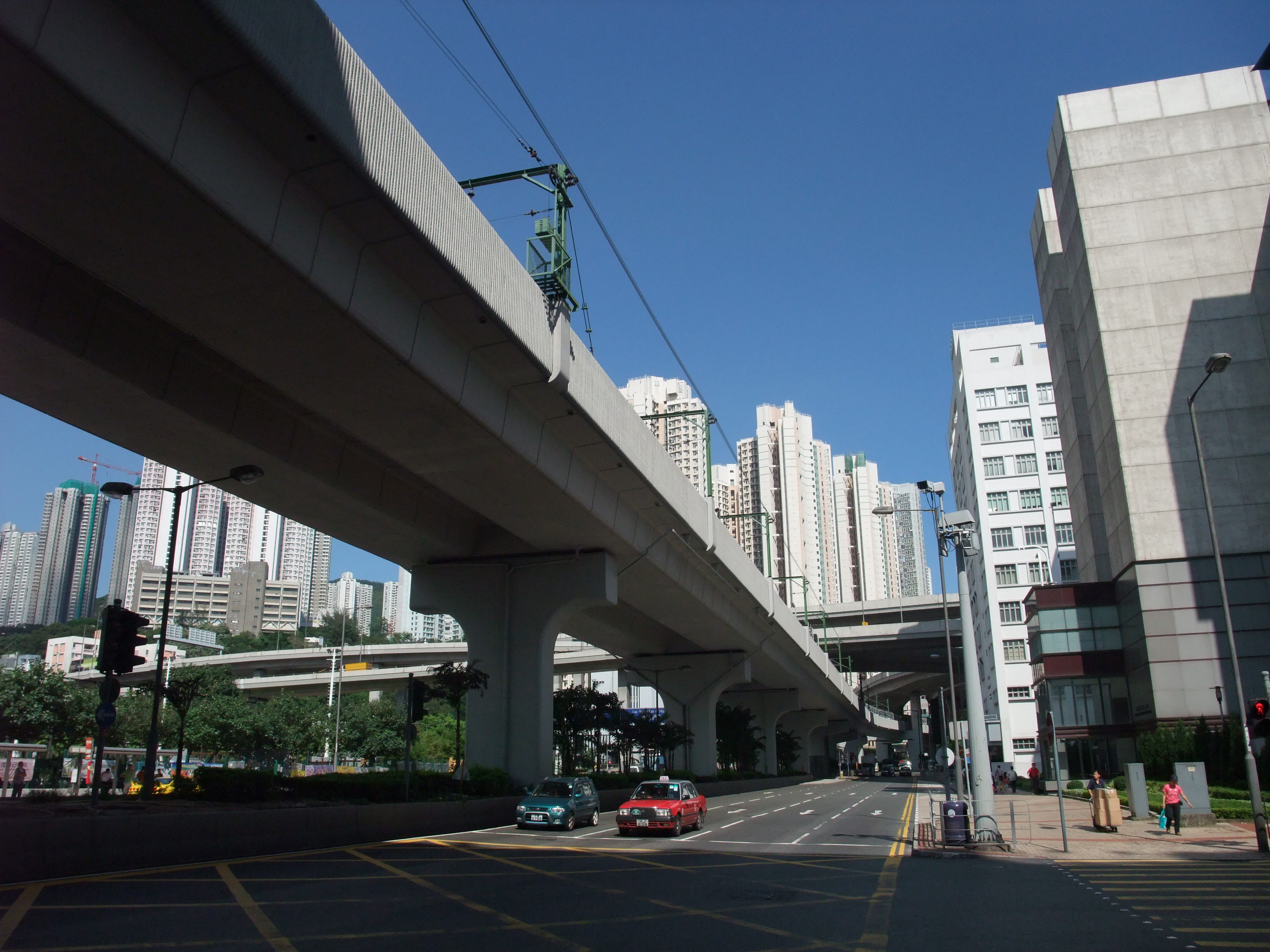 Photo of Lei Yue Mun Road